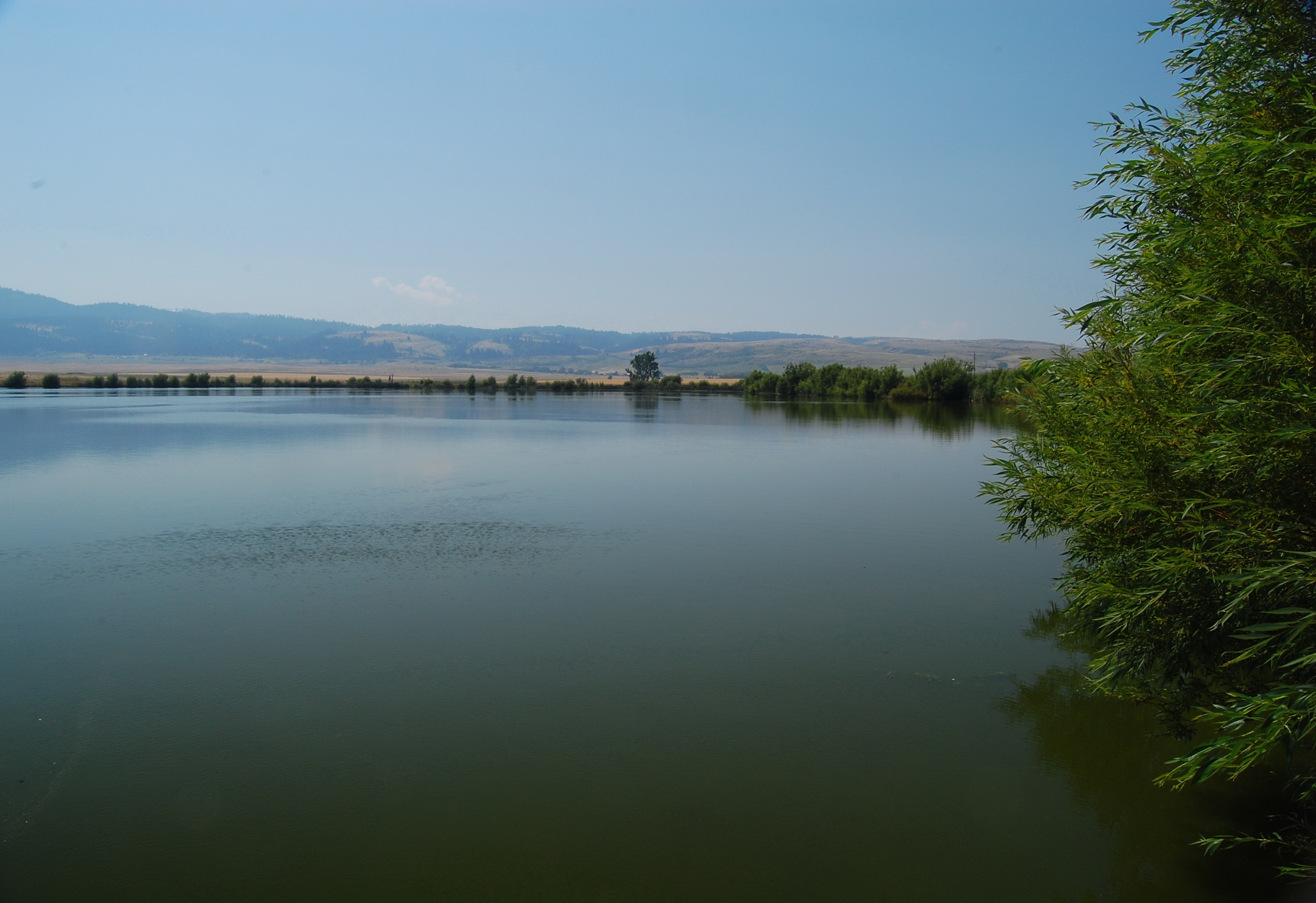 Along the Nez Perce National Historic Tolo Lake, near Grangeville, Idaho.